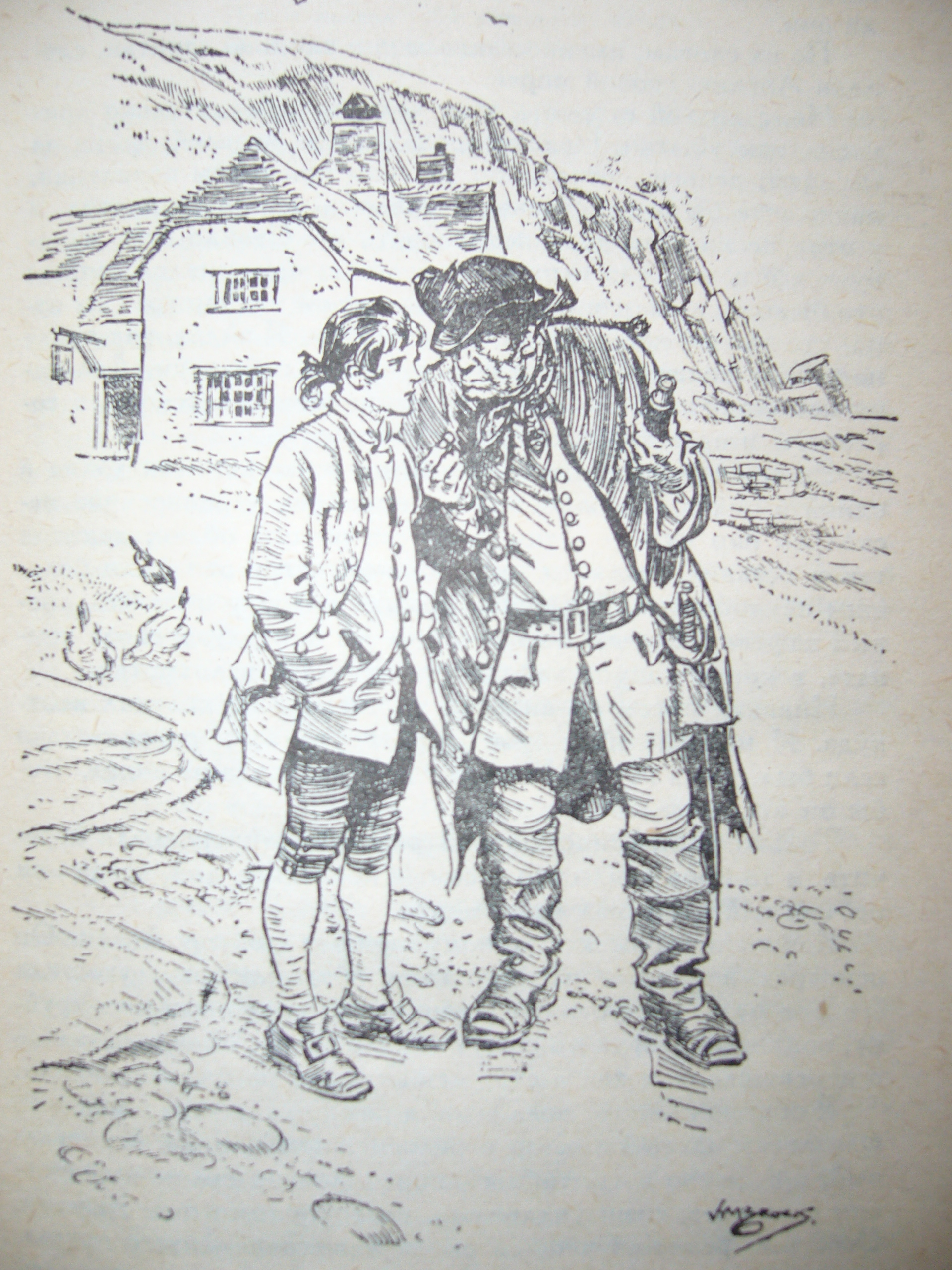 Jim Hawkins and Billy Bones, an illustration by G. Brock.